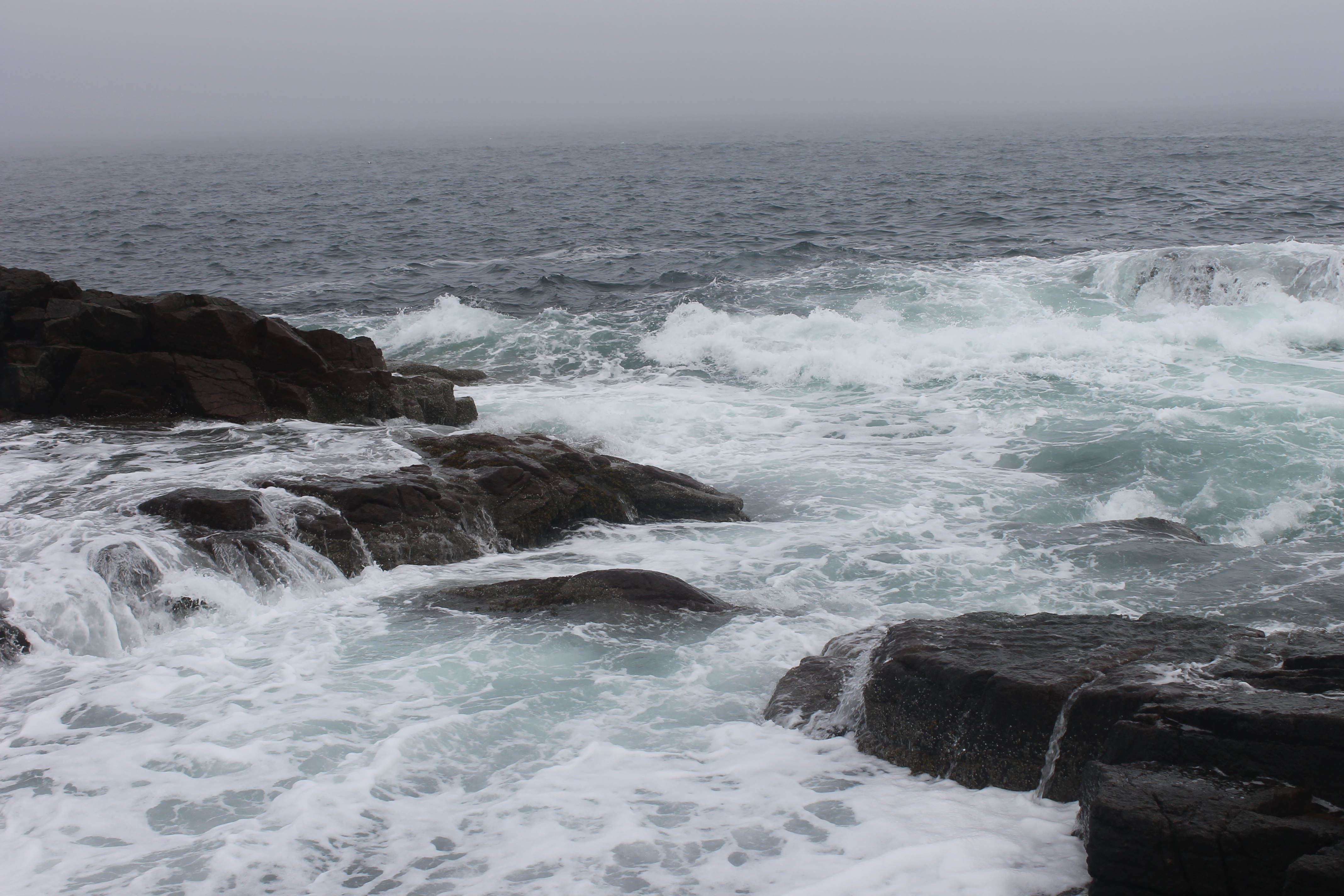 I took photo of high Atlantic tide near Thunder Hole in Acadia National Park, using Canon camera.